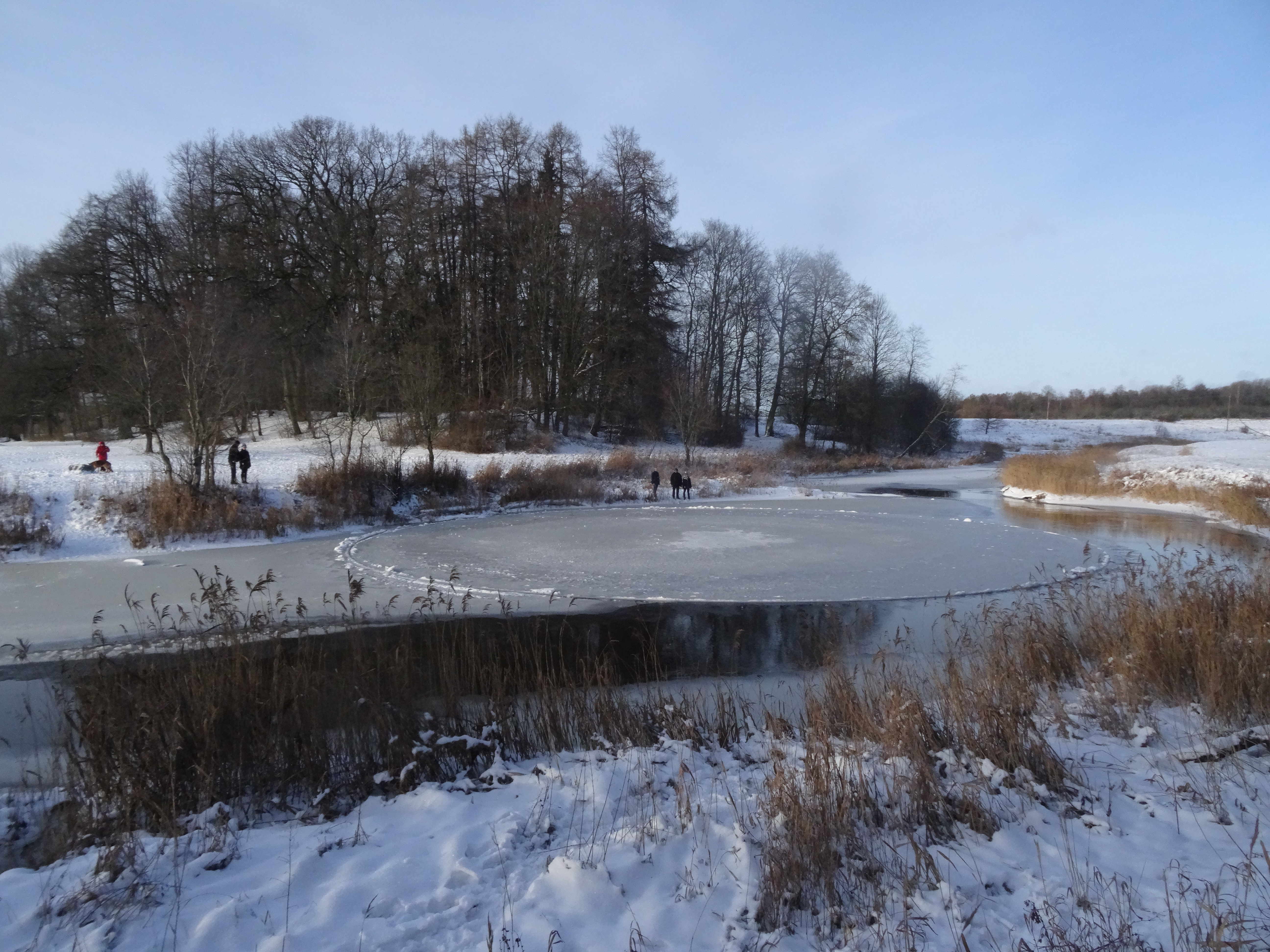 Spinning ice disk on Vigala river and tourists (January 2019)